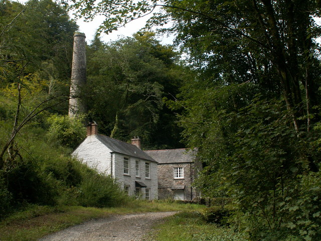 Danescombe Valley Mine Buildings The nearer building is believed to have been the mine counting house and the one behind it the engine house for an adjacent mine shaft with its chimney a little way up the hill behind. Both houses have now been converted for use as National Trust holiday accommodation.